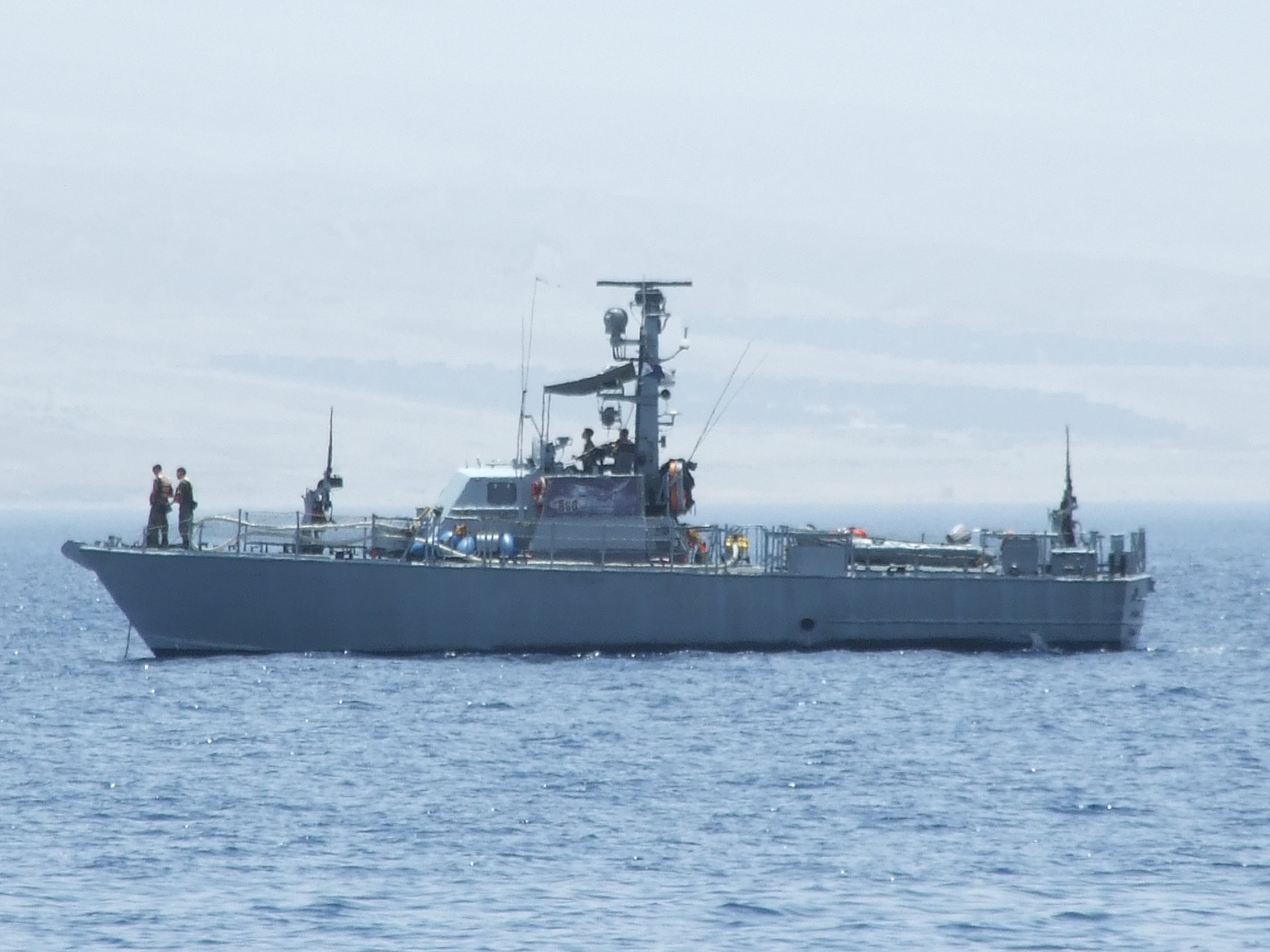 Israeli Dabur class patrol boat (number 860) in bay of Eilat (returning).